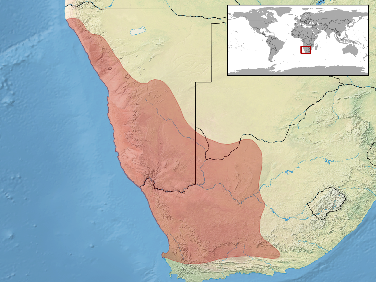 geographic distribution of Chondrodactylus angulifer (Native: Botswana; Namibia; South Africa)